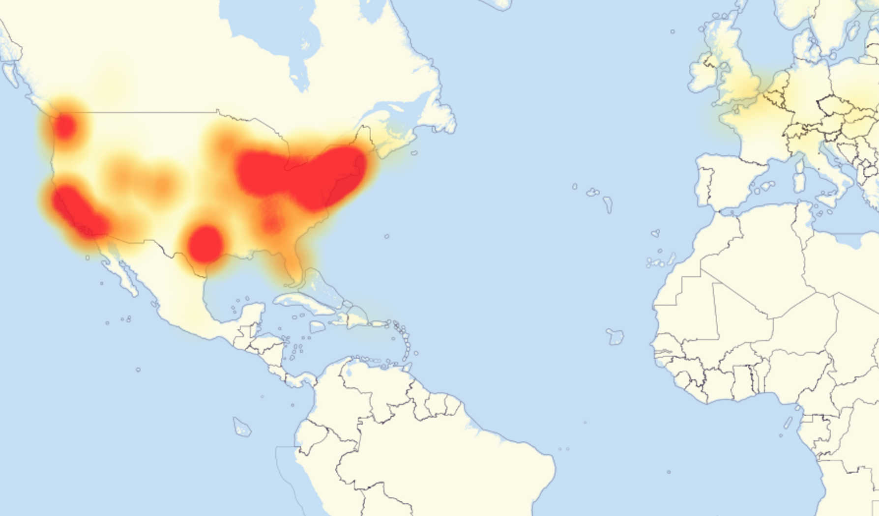 A map of internet outages in Europe and North America caused by the Dyn cyberattack (as of 21 October 2016 1:45pm Pacific Time).